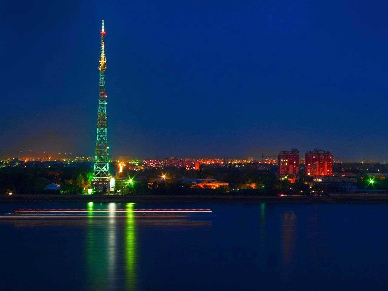 Blagoveschensk tower at night